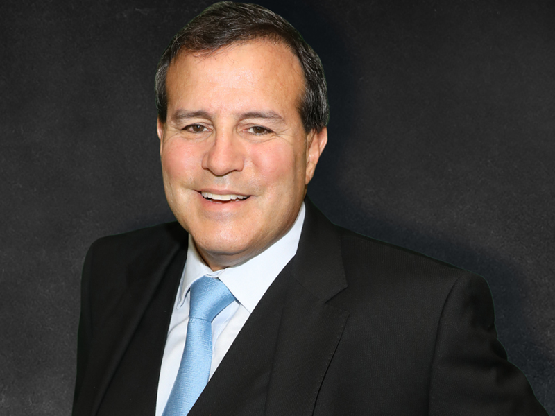 Taken 2020 May 13 in my studio, a portrait (of many). Pictured: Howard Dvorkin.